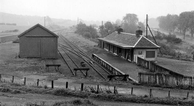 Bankfoot Station. View from buffers towards Strathord. The station is remarkably well-preserved, considering it was closed to passengers 13/4/31 - 30 years before; however the branch remained open for goods until 7/9/64